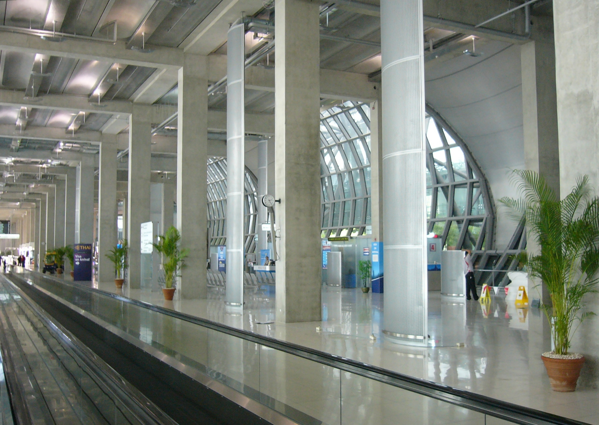 Moving sideways at Suvarnabhumi International Airport near Bangkok, Thailand.